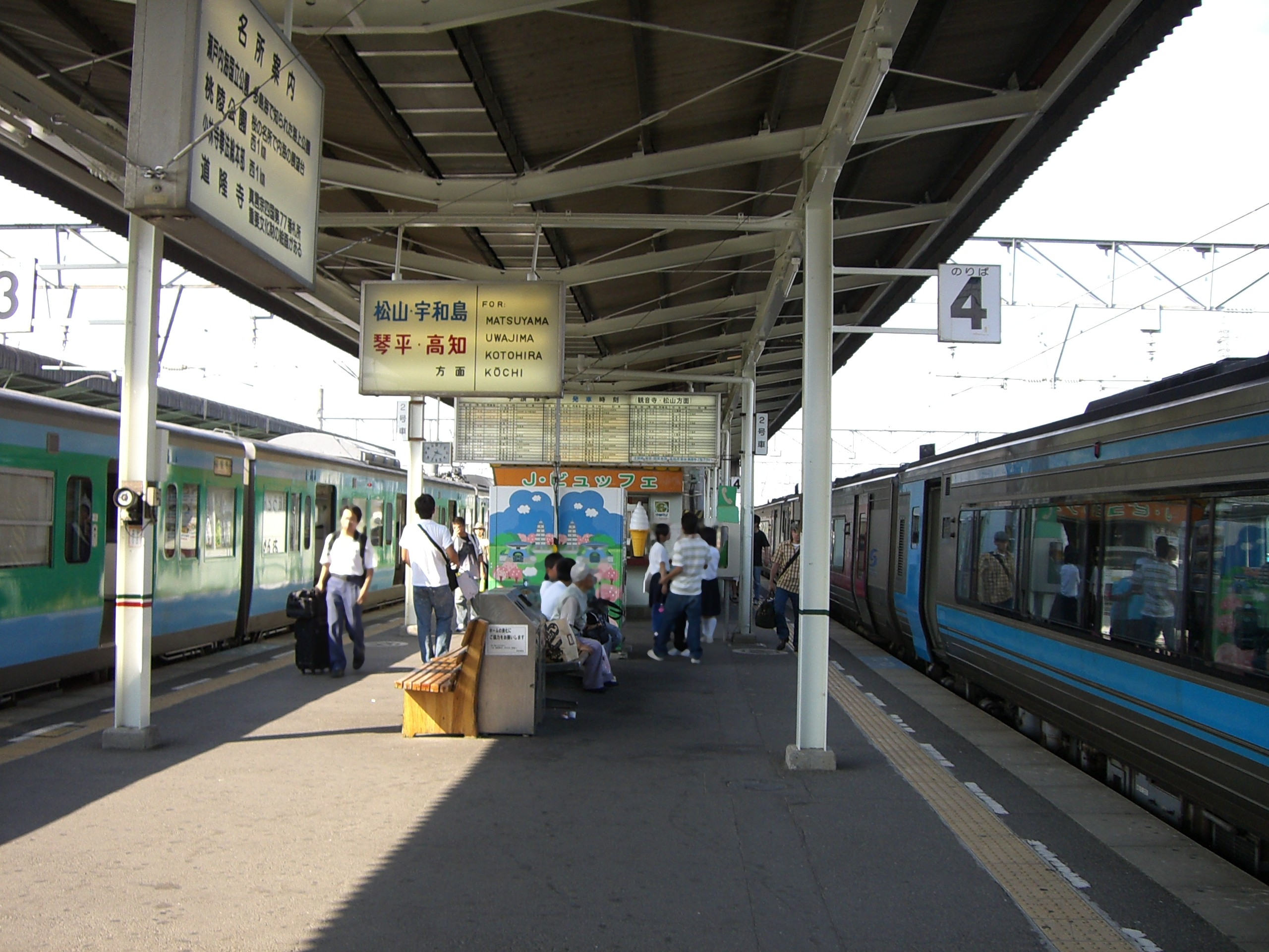 JR Shikoku Tadotsu Station